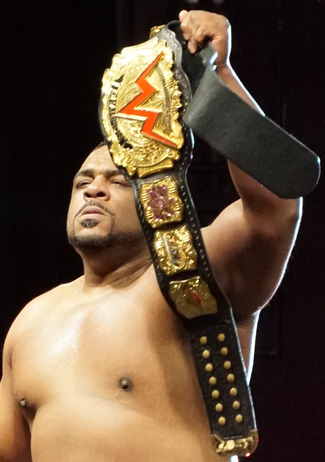 NOLA 2018 - WWE Axxess - Thursday - Keith Lee Vs Kassius Ohno Keith Lee (c) def. (pin) Kassius Ohno For : WWN Title ( Deux semaines a Nola pour la ville et pour WWE Wrestlemania XXXIV Two weeks Nola for the city and for WWE Wrestlemania XXXIV )